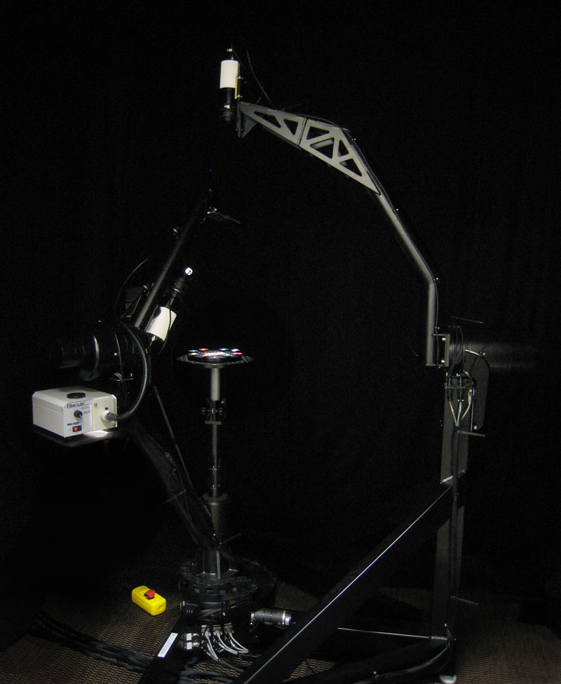 Photograph of the University of Virginia Spherical Gantry (an example of a modern gonioreflectometer).